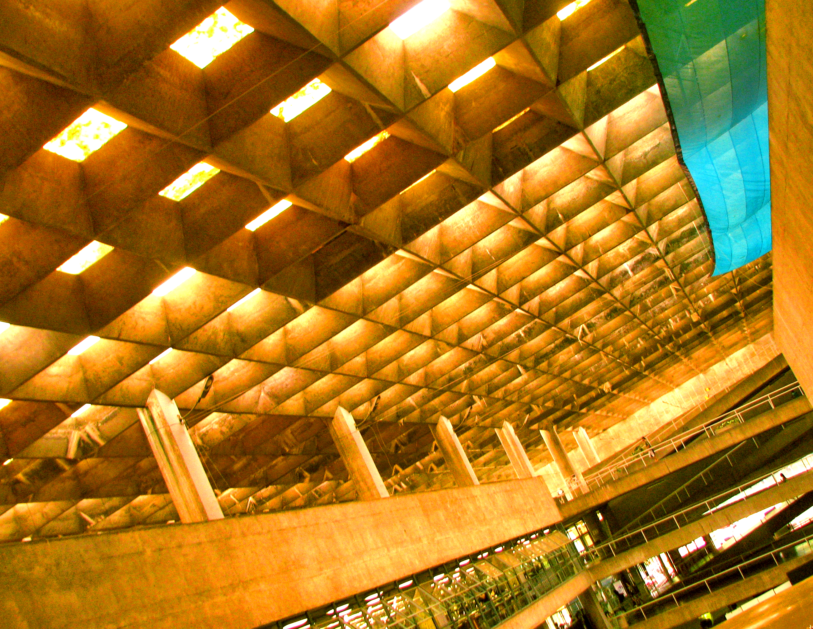 foto: gabriel fernandes, cc-by-sa